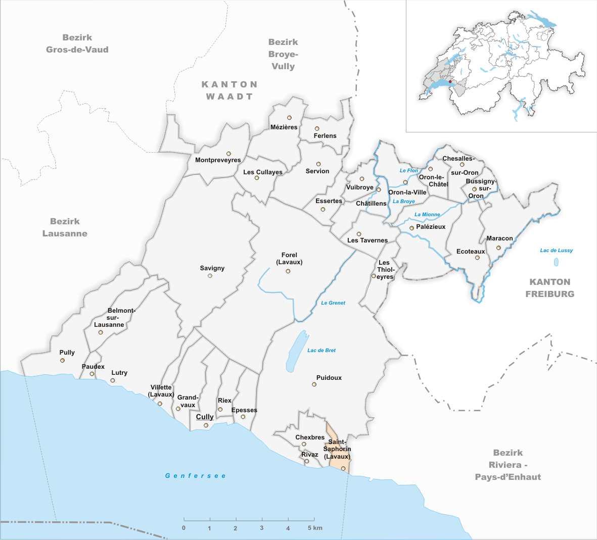 Municipality Saint-Saphorin (Lavaux)